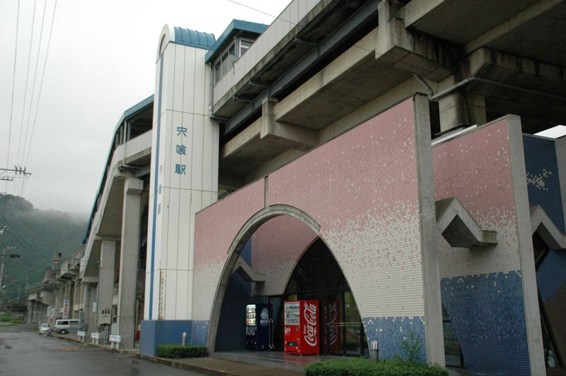 Asa Kaigan Railway Shishikui Station